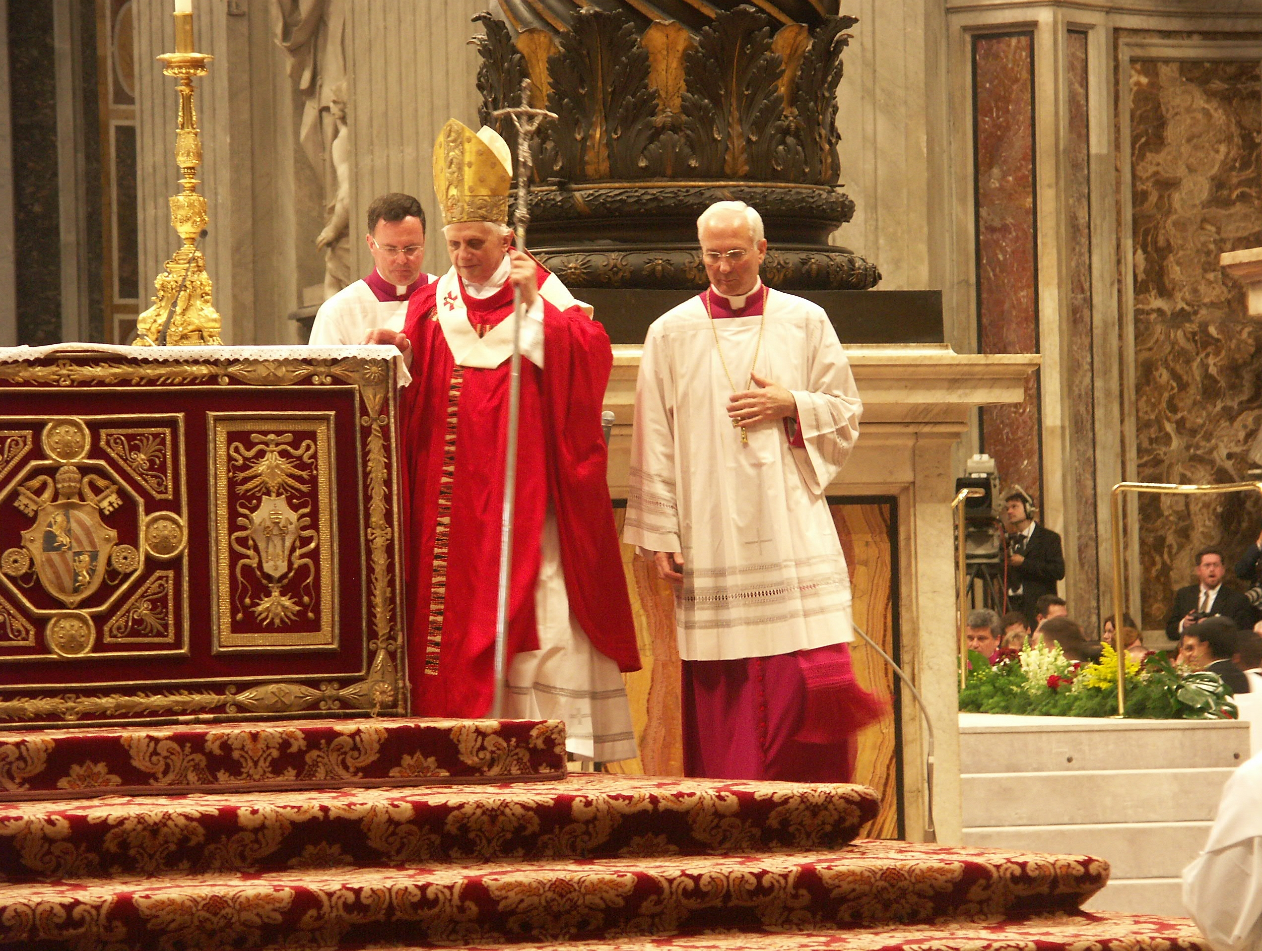 Benedictus XVI in St Peter's Basilica, on May 15th, 2005.